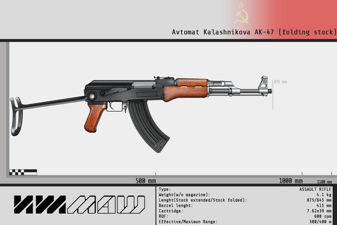 AKS assault rifle